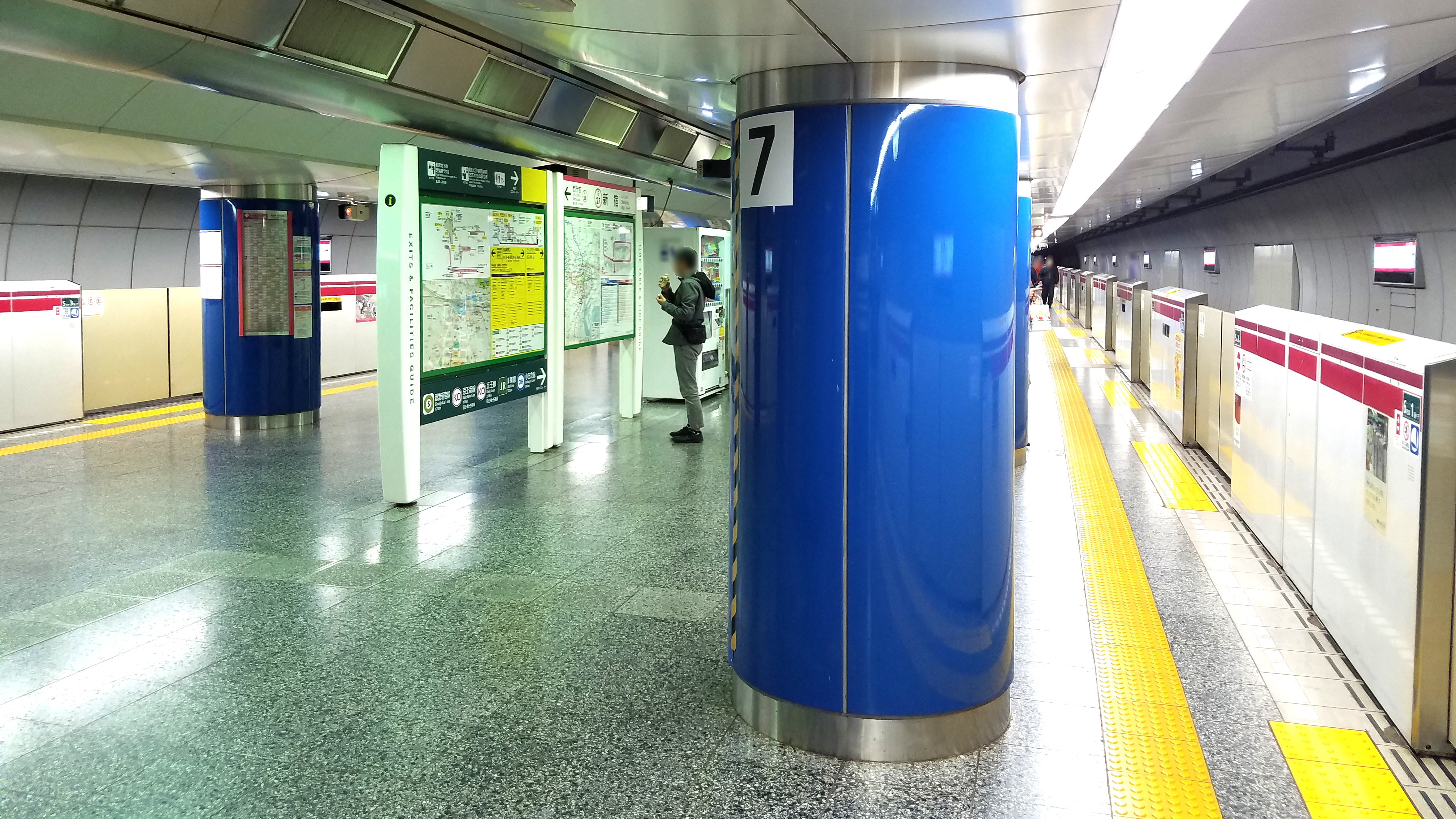 The platform at Shinjuku Station on the Toei Ōedo Line in Shinjuku city, Tokyo, Japan